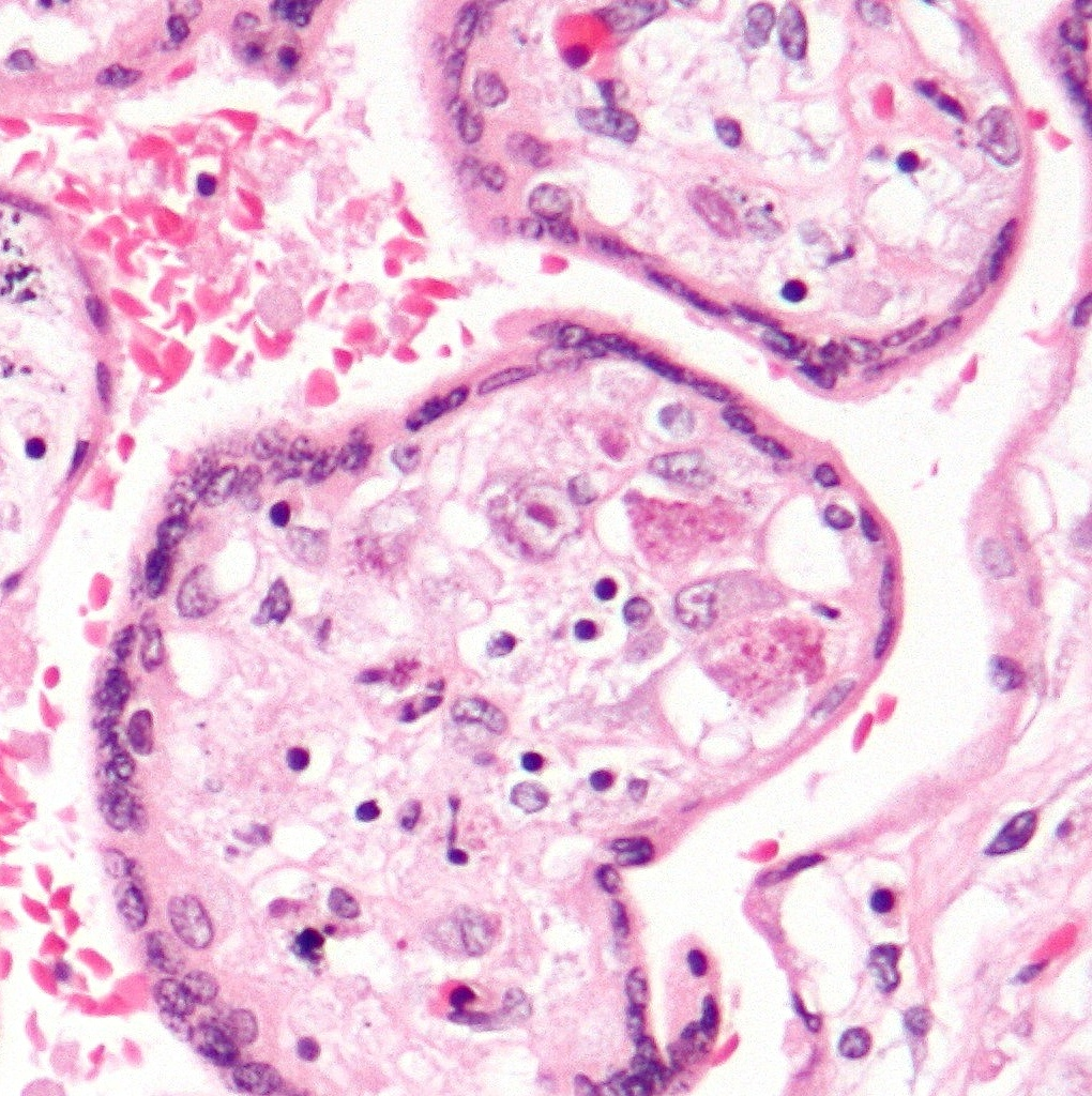 Micrograph of cytomegalovirus (CMV) placentitis. H&E stain. CMV is a TORCH infection. Compared to chorioamnionitis, TORCH infection are fairly uncommon. They may result in an abortion (miscarriage). The villi in the image have marked inflammation that is predominately lymphocytic. A characteristic CMV cell is seen dead centre of the image. The red blood cells surrounding the chorionic villi are maternal. Related images Field #1. Close-up of Field #1 - shows the characteristic nucleus Field #2. Close-up of Field #2 - shows the characteristic nucleus